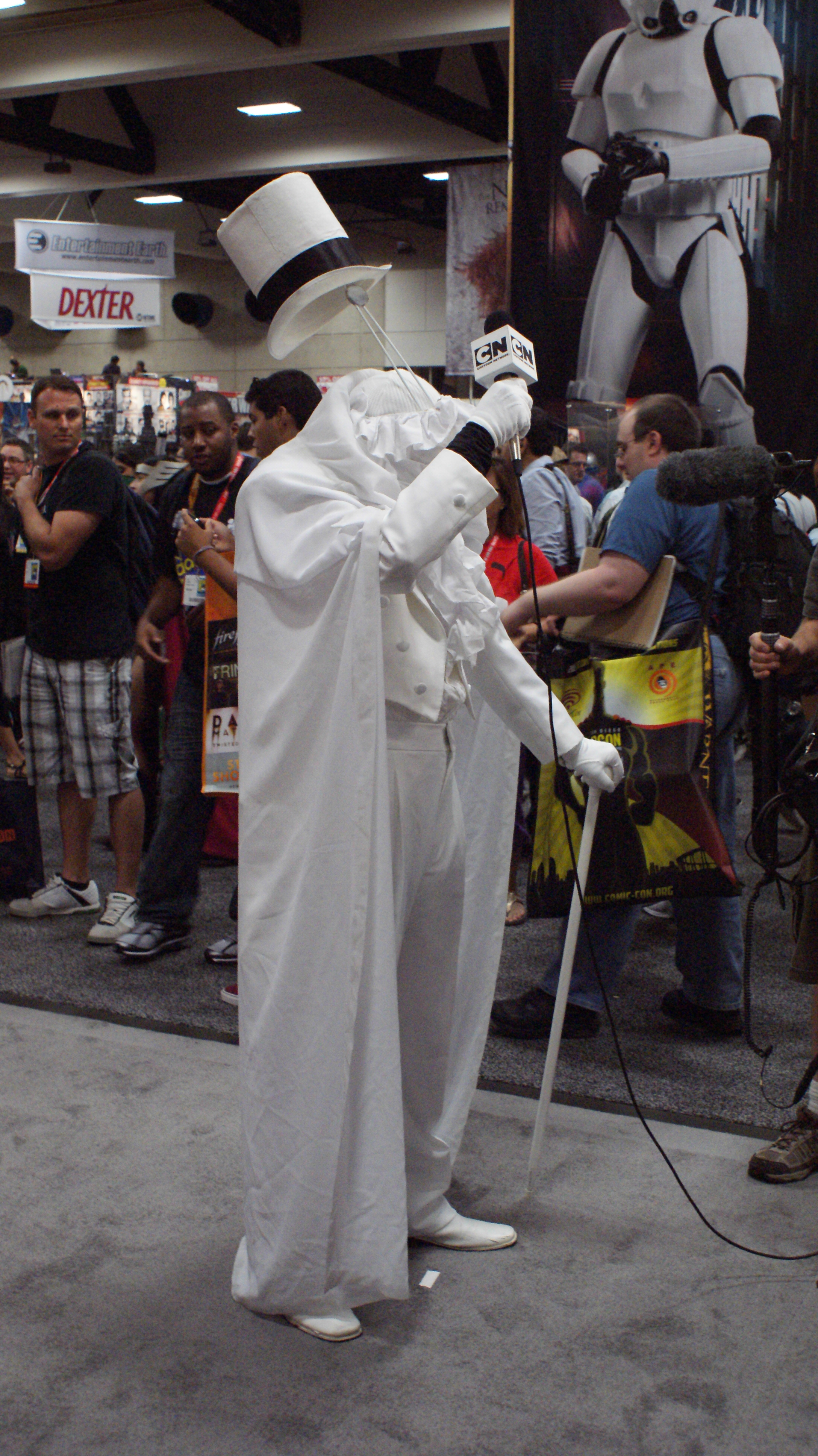 Cosplay at San Diego Comic-Con (SDCC 2012).